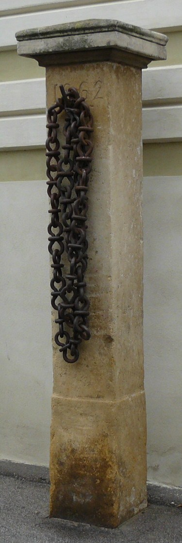 Eisenstadt - no-entry column in ex ghetto.